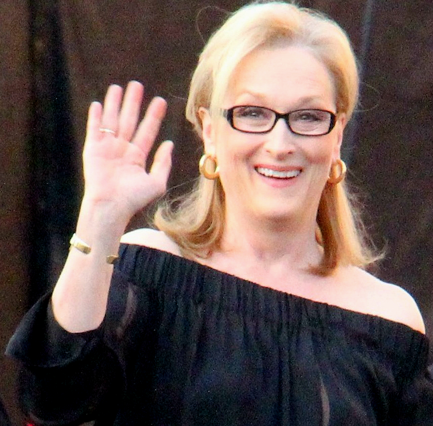 Meryl Streep At The 2014 SAG Awards